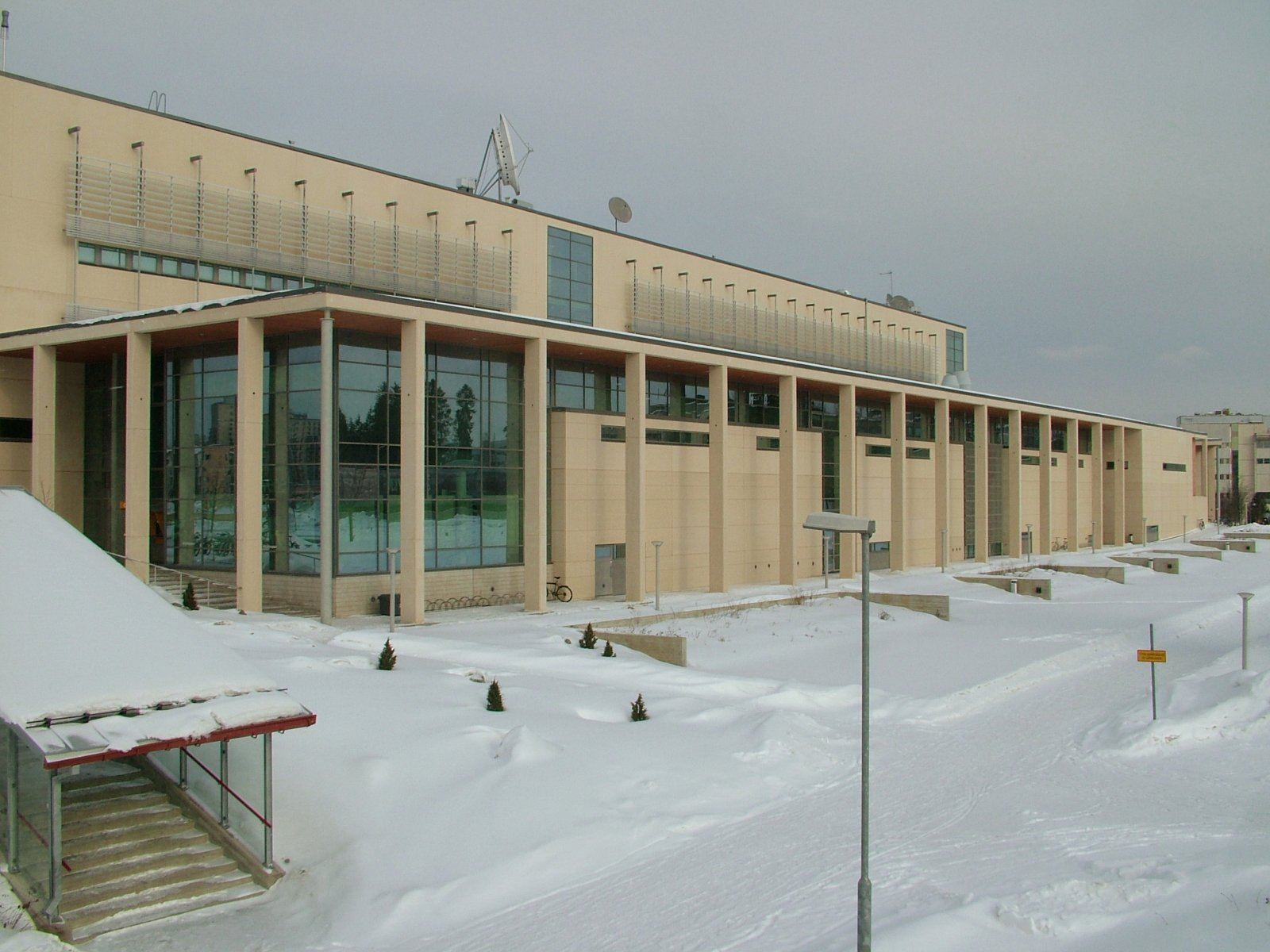 The department of computer science at Tampere University of Technology.